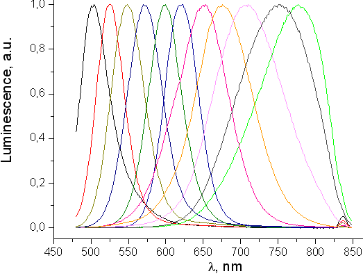 Author: PlasmaChem GmbH